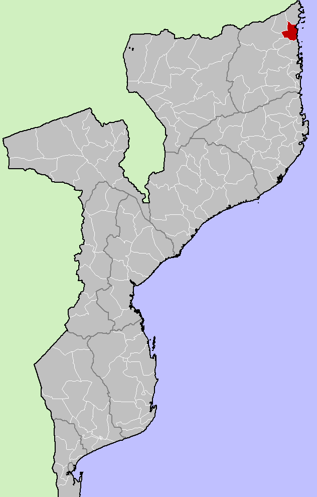 District locator in Mozambique